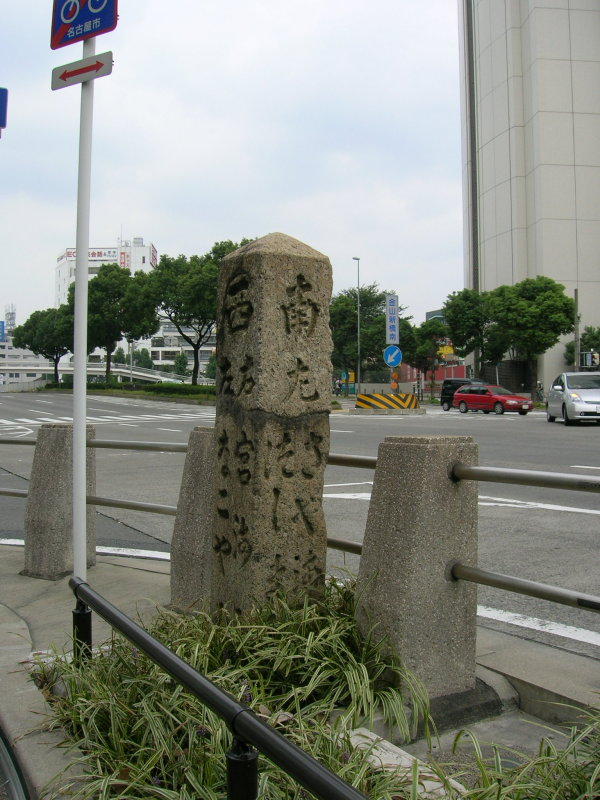 Saya Kaido Do-hyo (Guidespot of Saya route), build of 1821. Loc: Nagoya city, Aichi Prefecture, Japan 文政四年（1821年）に立てられた佐屋街道の道標 撮影場所 愛知県名古屋市中区（金山駅付近）